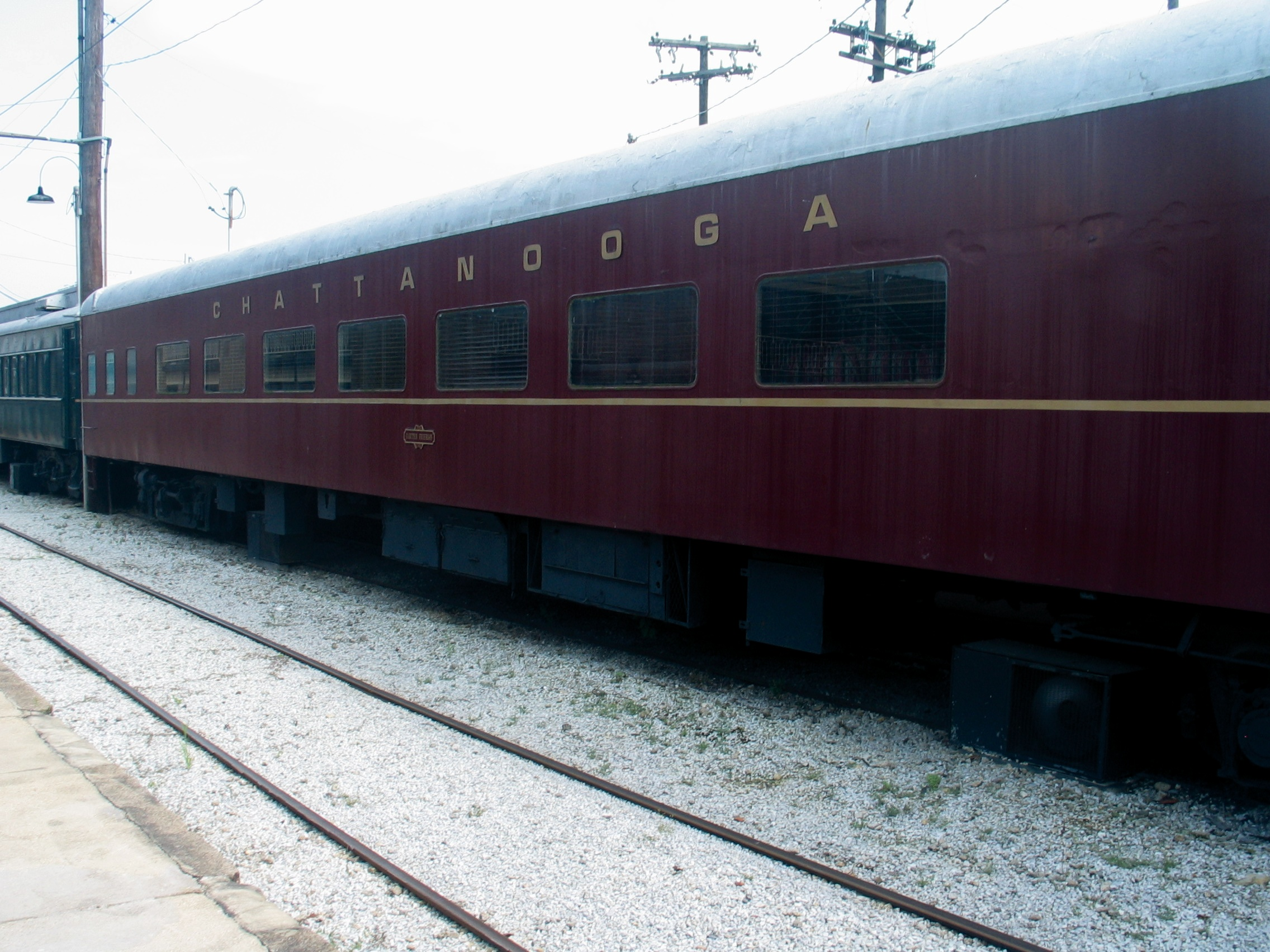 Taken by me at the Chattanooga train station August 19, 2005.